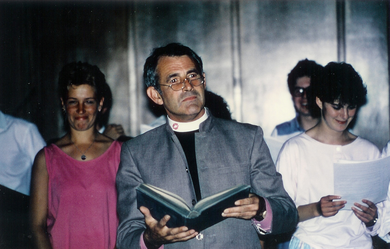 Flute teacher Trevor Wye organized the International Summer School at St. Lawrence College Ramsgate UK 1969-1988. School students and teachers celebrated the end of the school with musical skits like this one where the choir questions the morals of a wicked vicar played here by Wye in 1986.